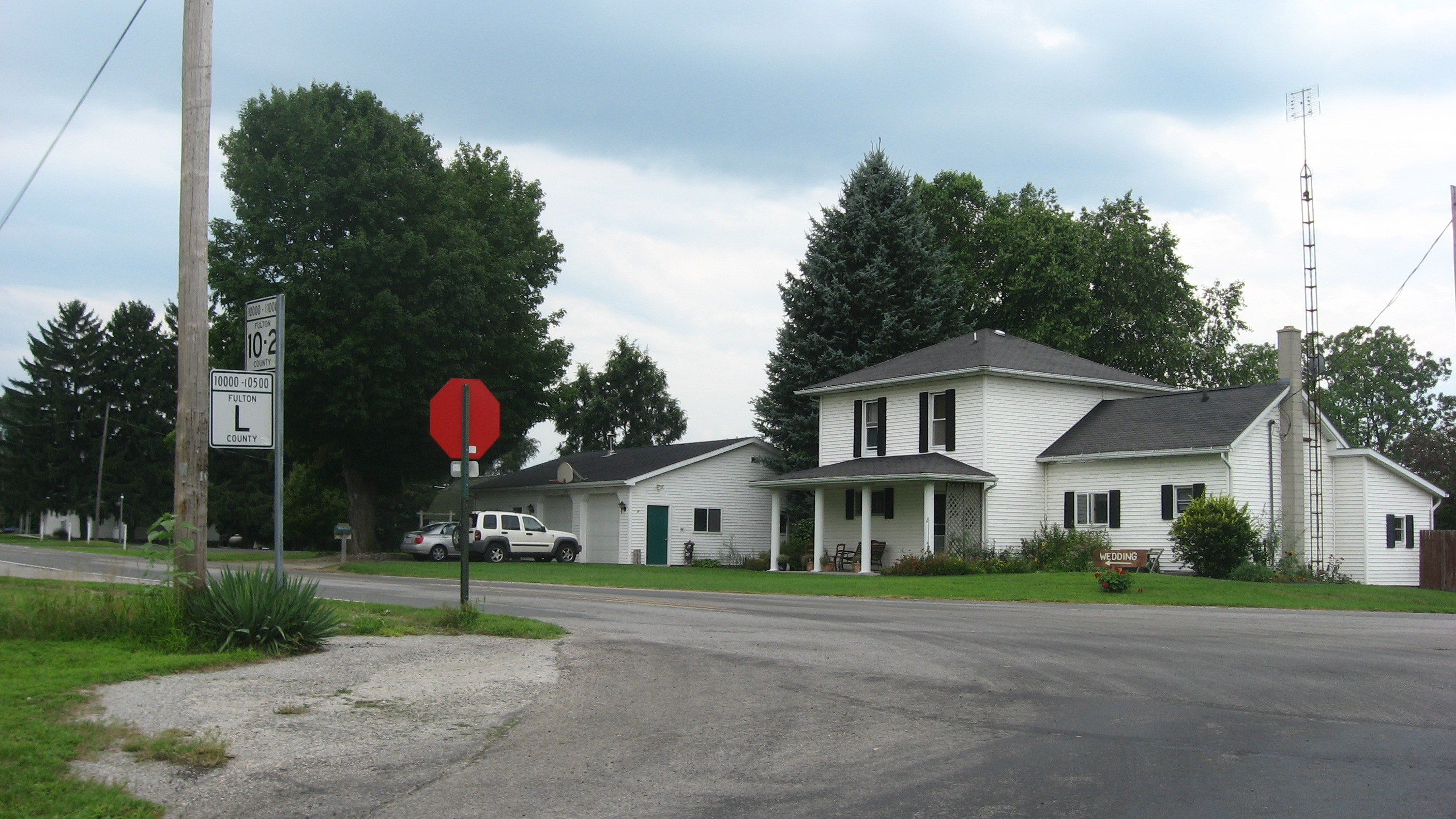 Buildings in Winameg, Ohio, United States, seen from the intersection of County Roads 10-2 and L.